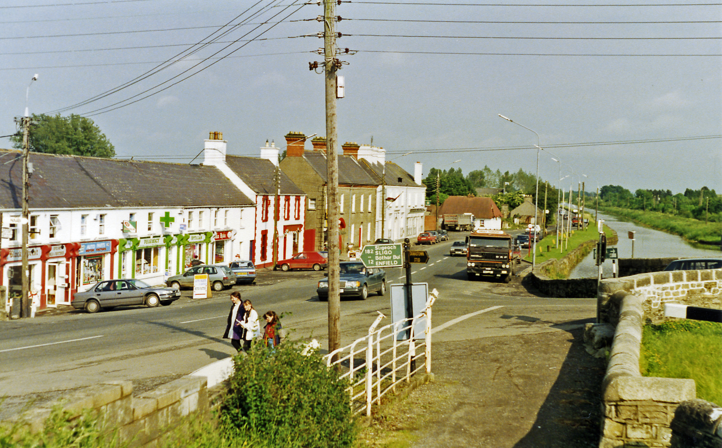 Leaving Kilcock on N4, the main road to Dublin. View eastward, towards Maynooth and Dublin. On the right is the Royal Canal, which runs from the River Shannon at Termonberry, near Longford (Co. Westmeath) all the way to Dublin, and here forms the boundary between Cos. Meath and Kildare. (Note the lock-gate beams on the right). (This was before the M4 motorway was built).